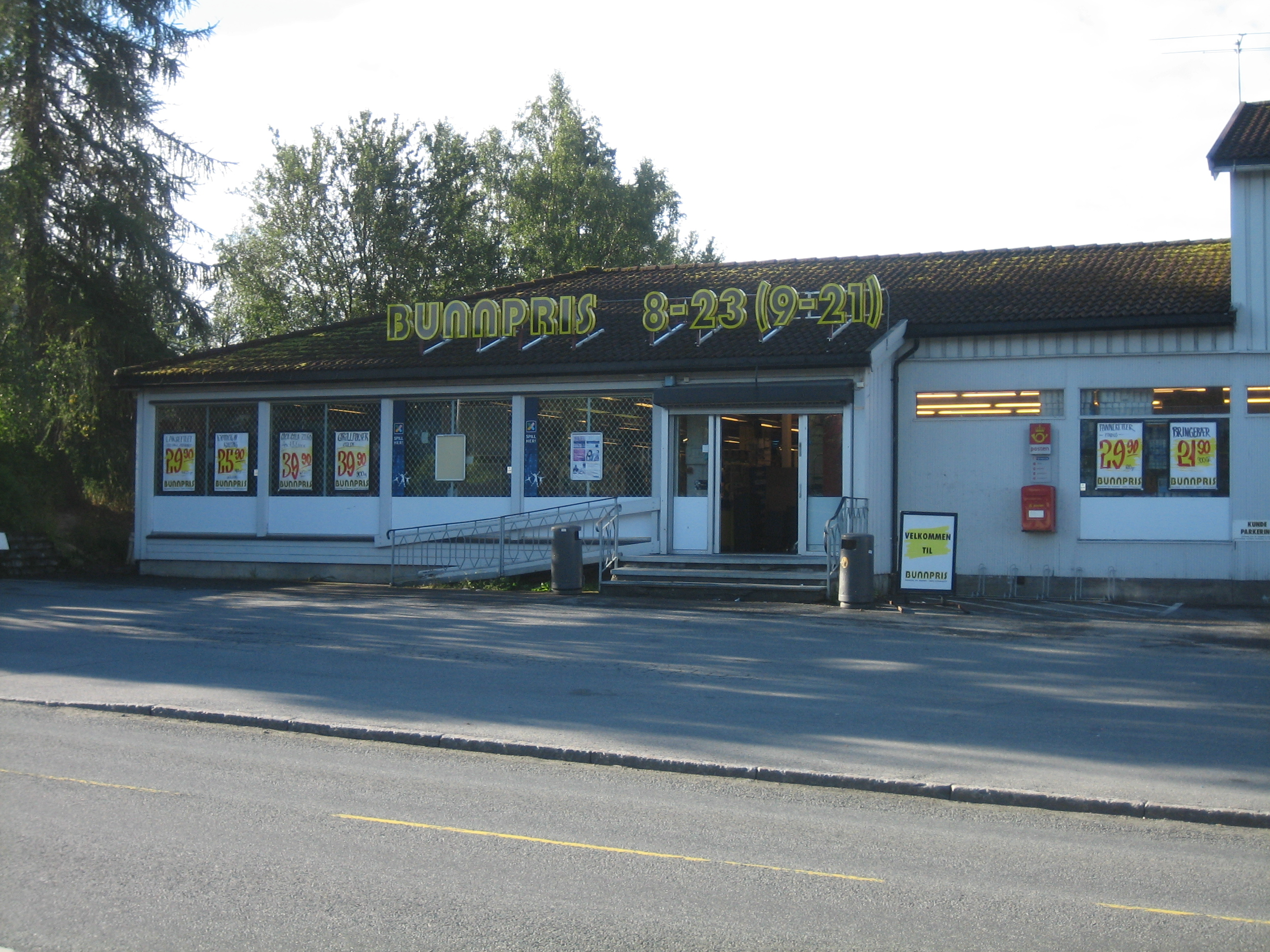 Bunnpris store at Berg, Trondheim